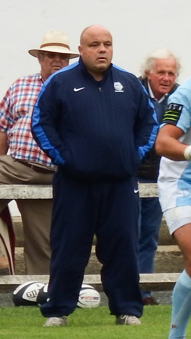 rugby union friendly match — 14 August 2015, stade Rémy-Goalard. Match between: US Dax — Q3550034